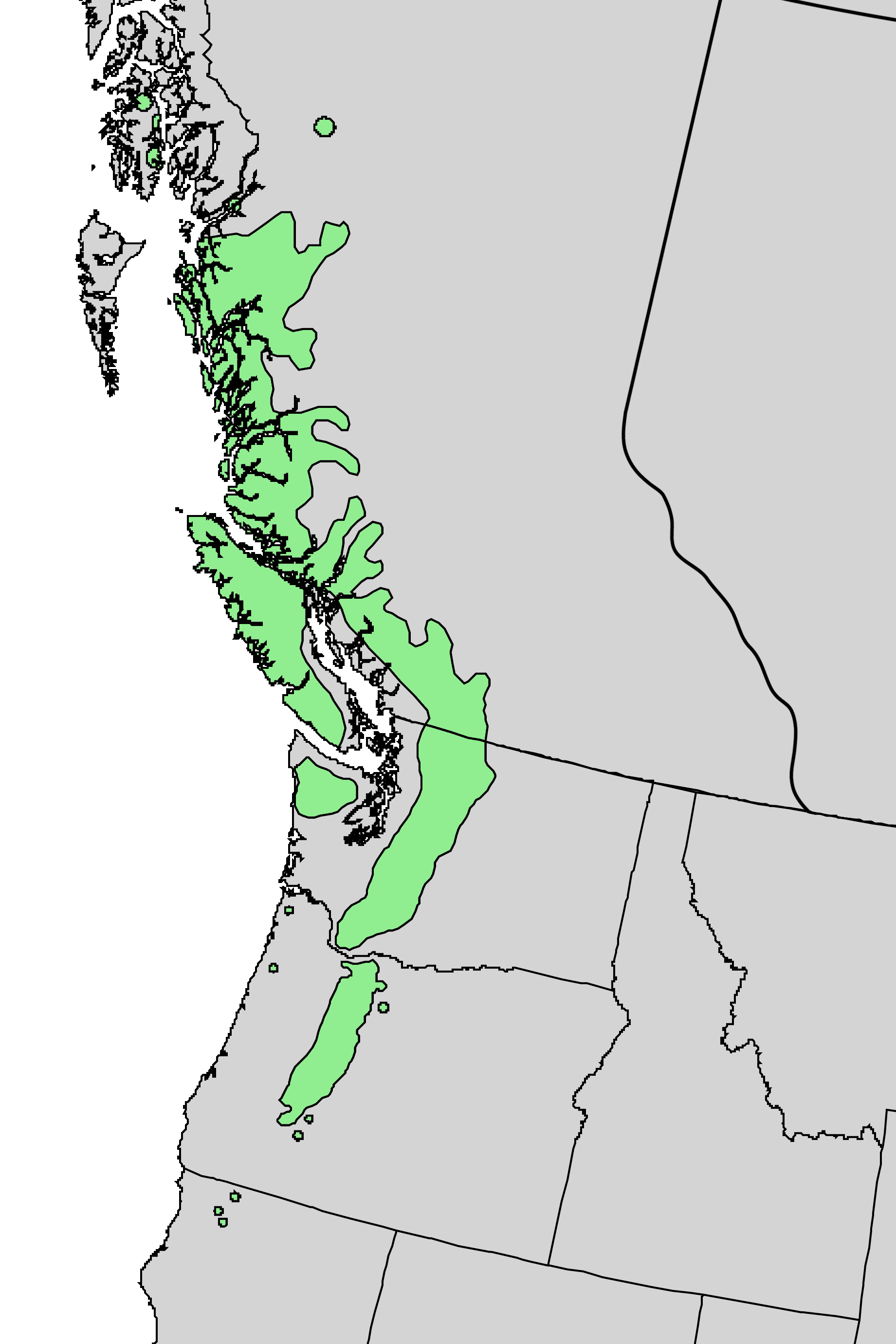 Distribution map of Abies amabilis (Douglas ex Loudon) Douglas ex Forbes (Pacific Silver Fir)